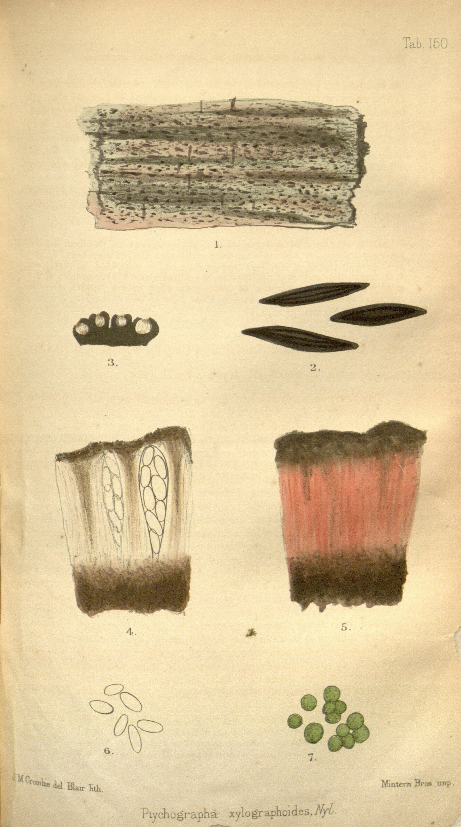 Botanical illustration of Ptychographa xylographoides by J.M. Crombie & Blair